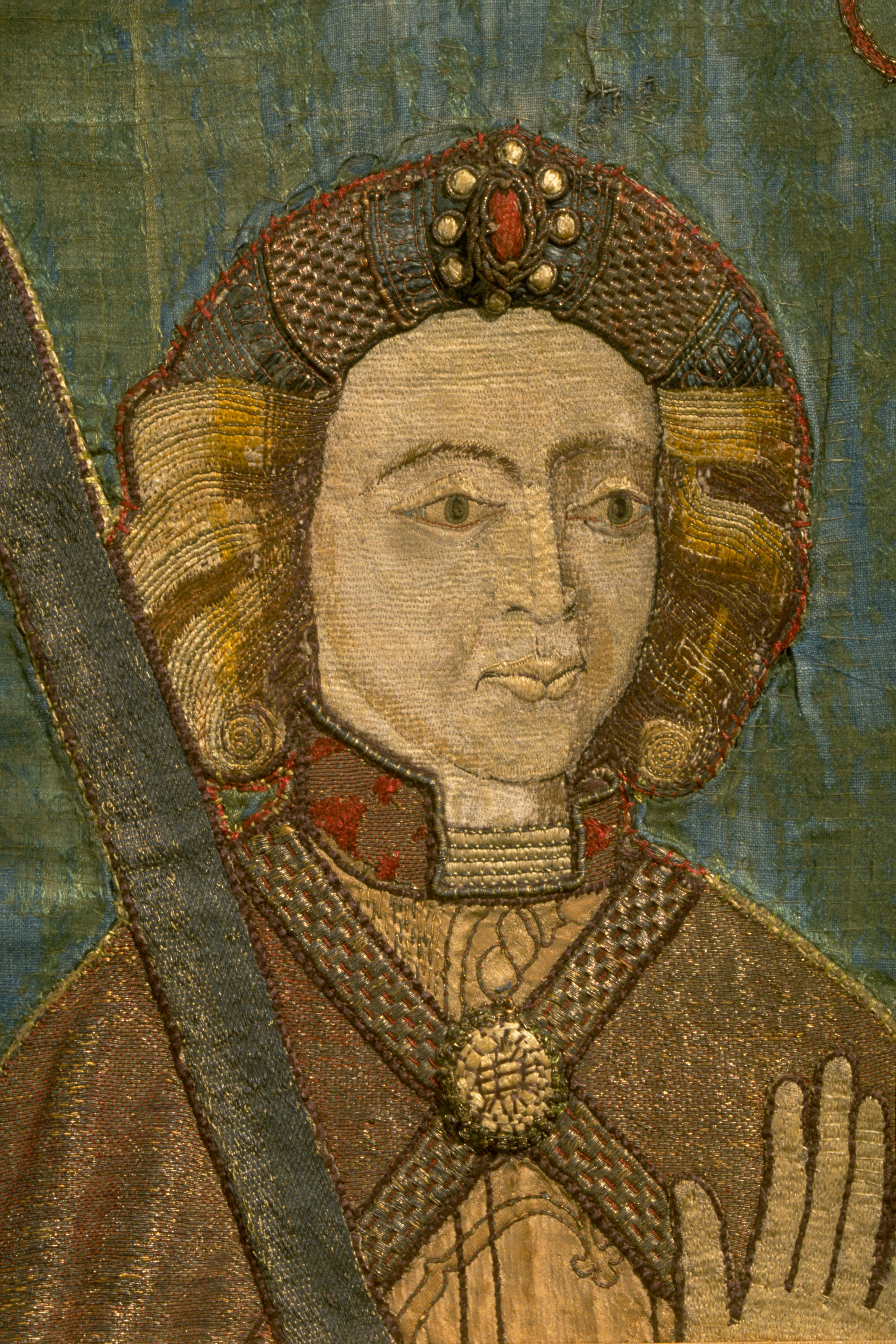 Detail of a grave covering of Holmger Knutsson (pretender of the Swedish throne, born circa 1210, beheaded 1248) from Skokloster, Sweden. Donated to the Swedish state in 1703, and on display at the Swedish Museum of National Antiquities since 1914: The Textile Chamber – Tomb Cover.)